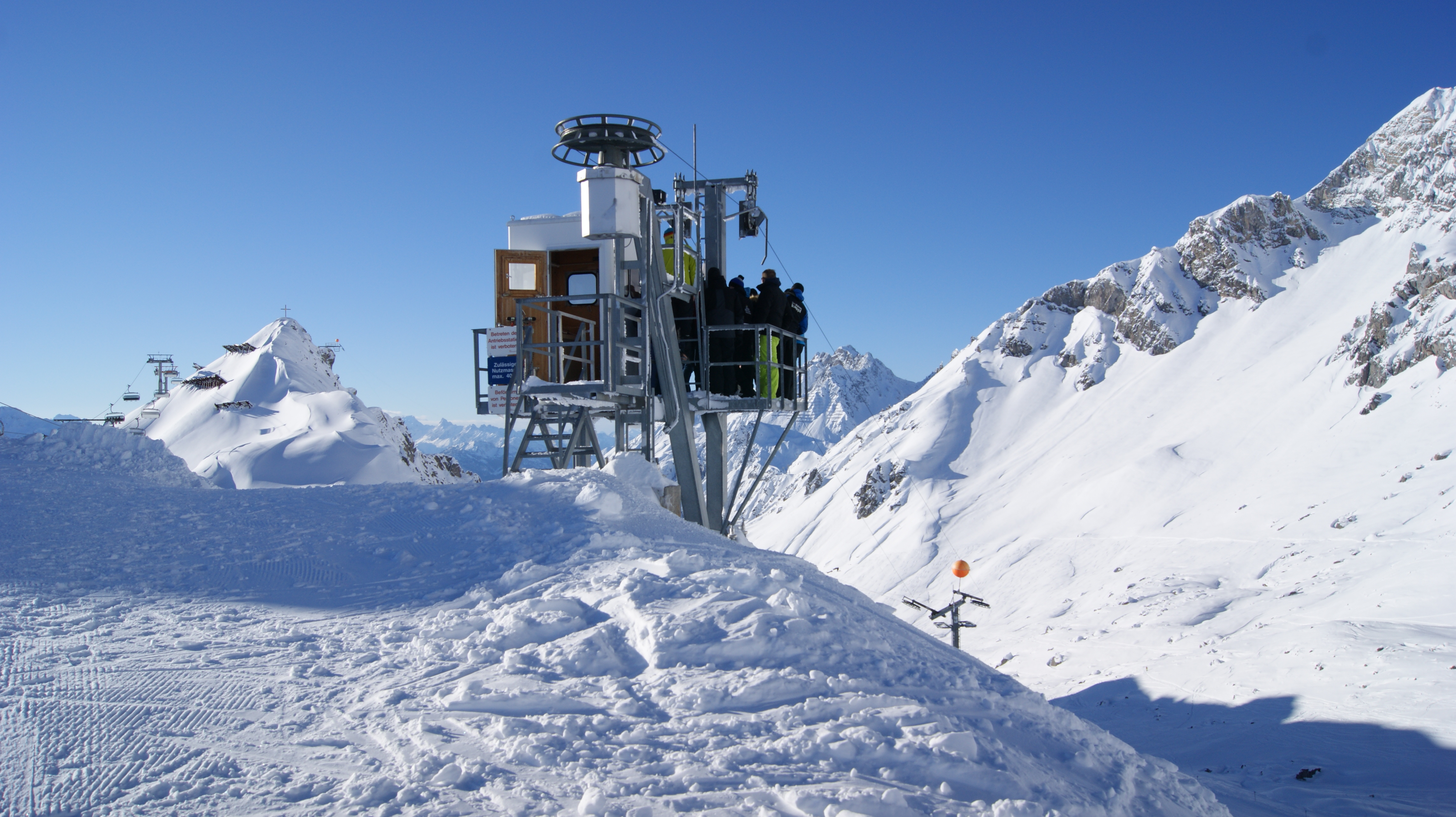 Avalanche blasting ropeway Valfagehr in Rauz, Kloesterle, Voralberg, Austria. Propulsion station of the avalanche blasting ropeway Valfagehr.